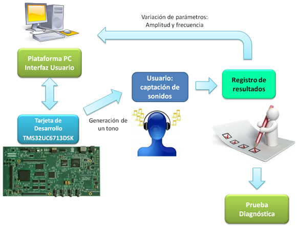 Diagrama de Bloques SDSA